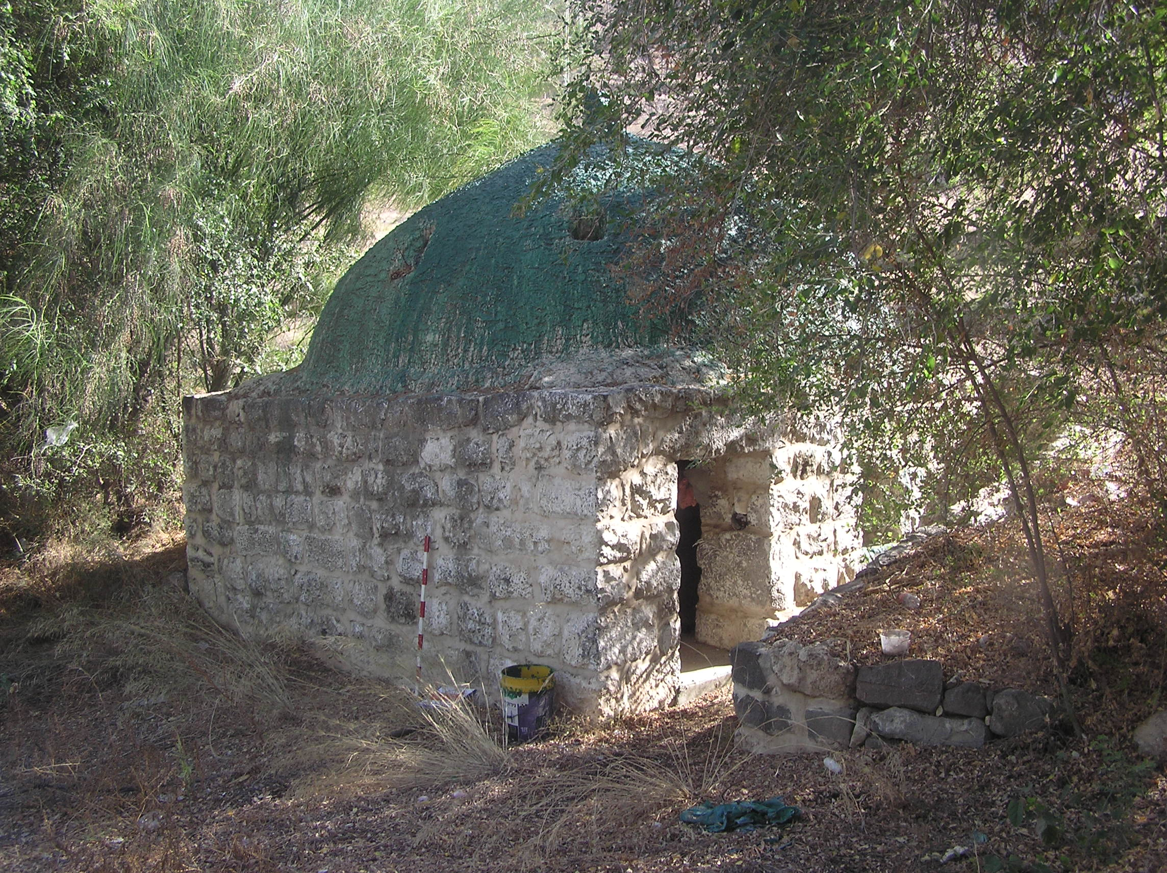 Maqam sheikh Muhammad al-‘Ajami, near the Migdal, Israel.